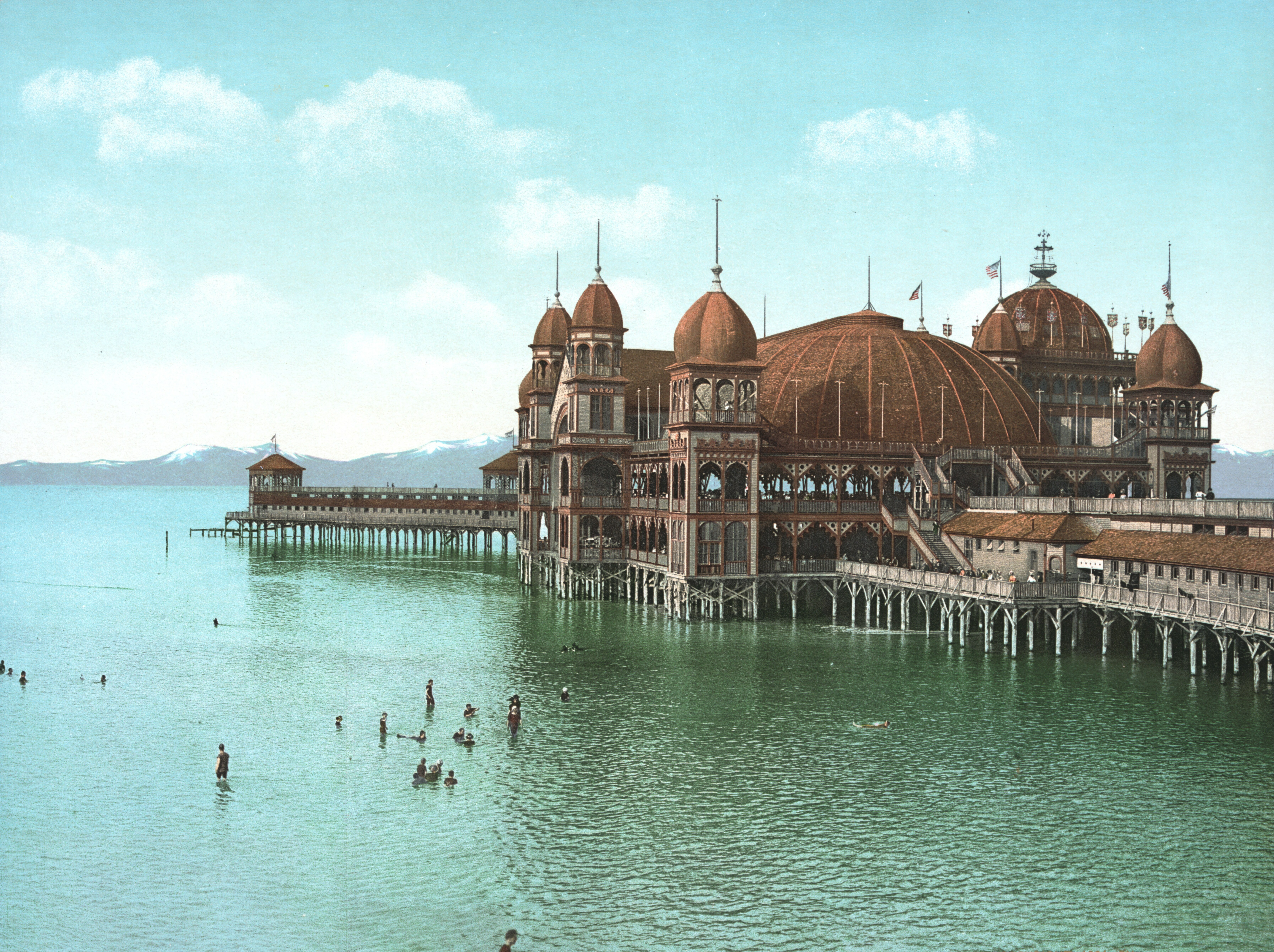 Saltair Pavilion, Great Salt Lake, Utah. MEDIUM: 1 photomechanical print: photochrom, color.